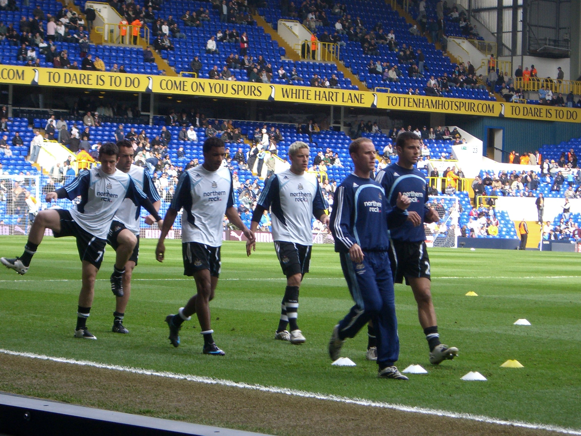 Newcastle United players training at White Hart Lane. Final score of the match was Tottenham Hotspur 1 - 4 Newcastle Utd. Left to right: Joey Barton, José Enrique, Habib Beye, Alan Smith, Nicky Butt and Steven Taylor.